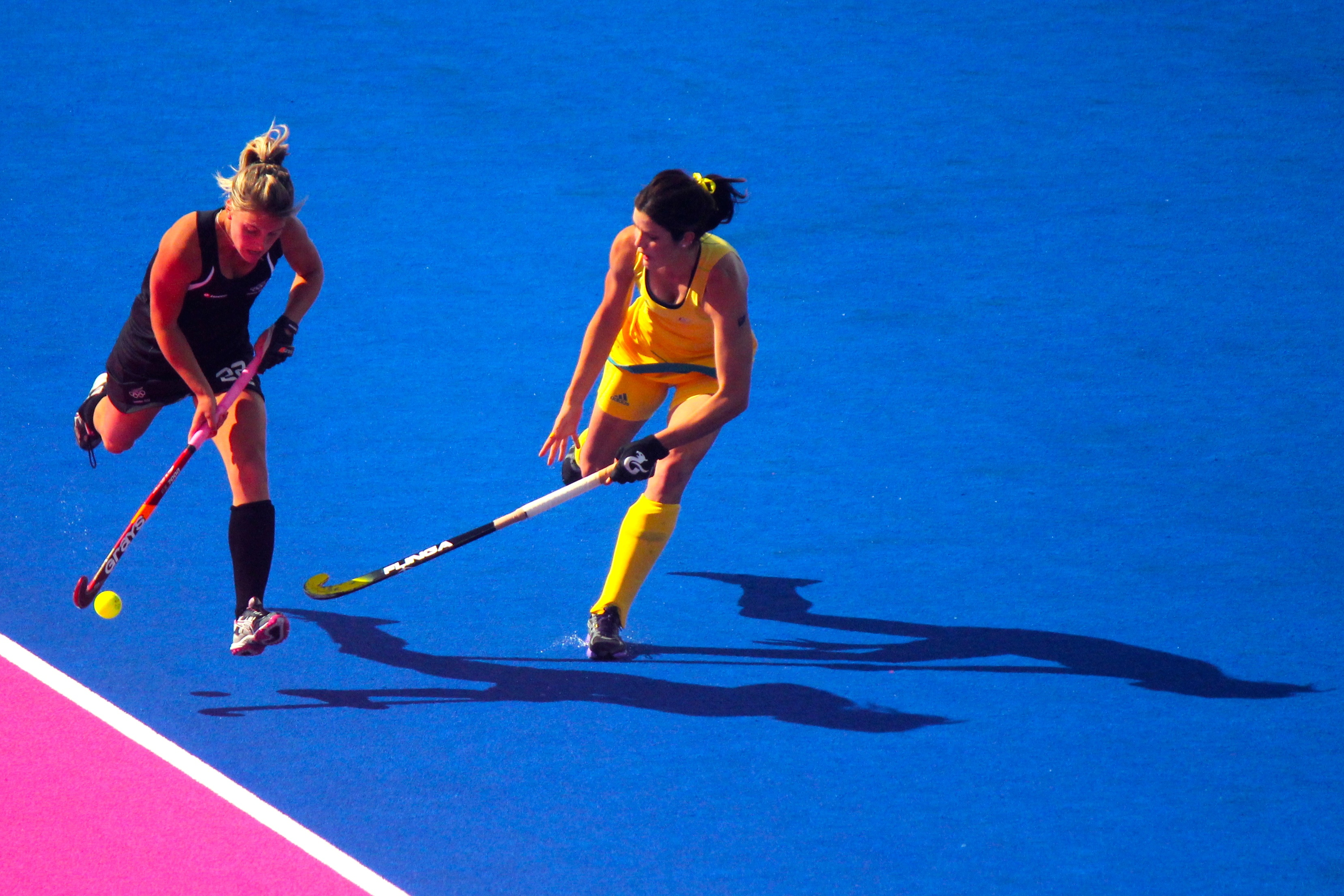 Gemma Flynn (left)